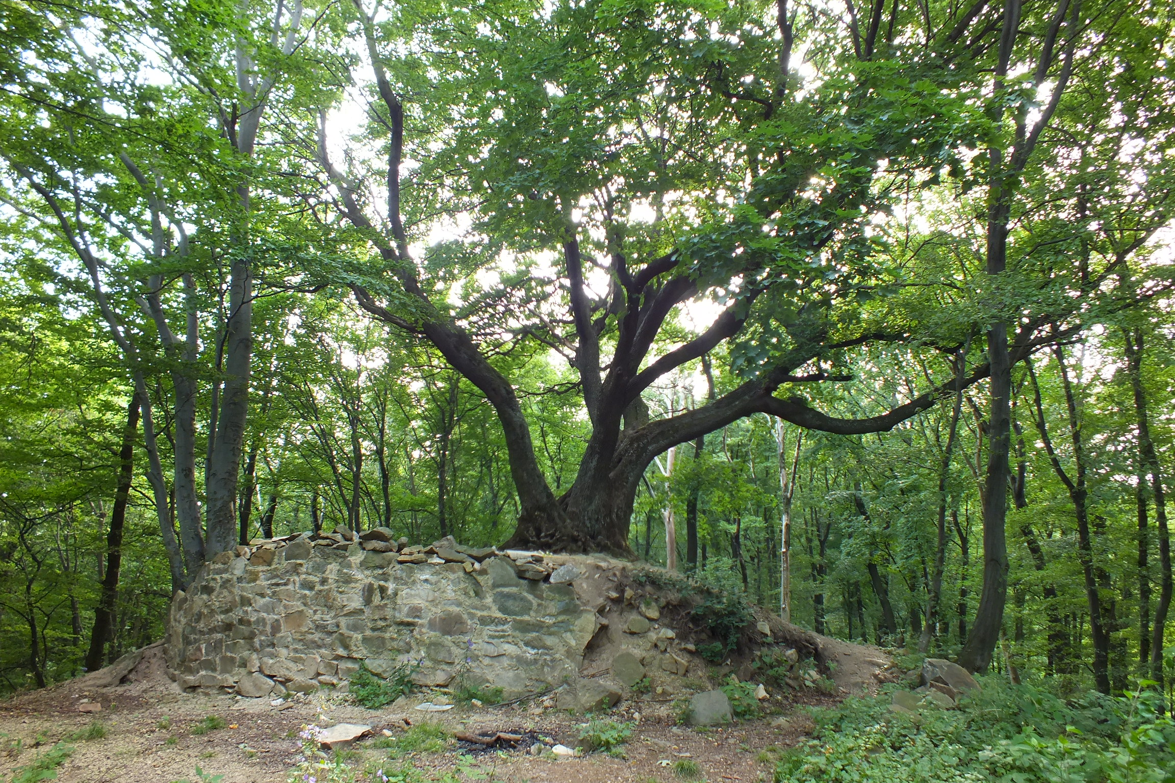 Ruins of the castle Zuvačov on the promontory Hrádek in the White Carpathians, near the village of Komňa, the Czech Republic.